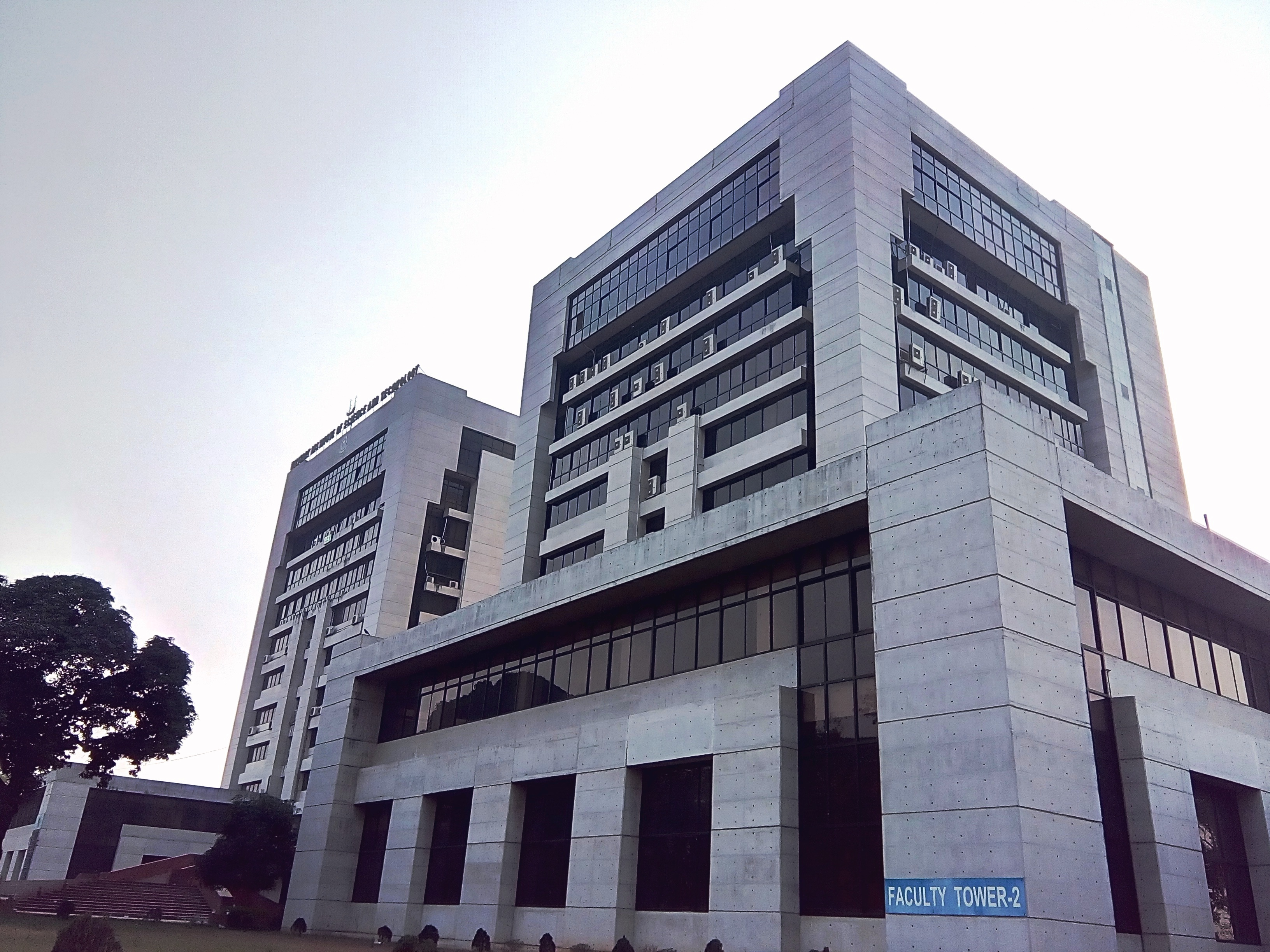 MIST Faculty Tower-2